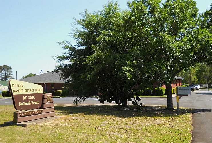 De Soto National Forest Ranger District Office, Mississippi Highway 26, Wiggins, Stone County, Mississippi, USA.